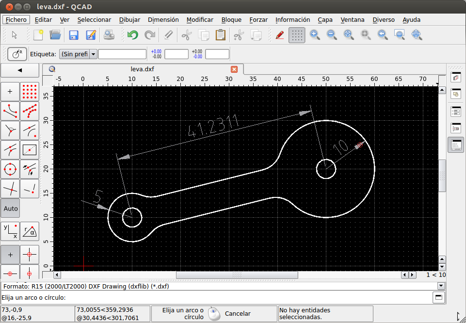 QCAD 3.3 under UBUNTU 12.04